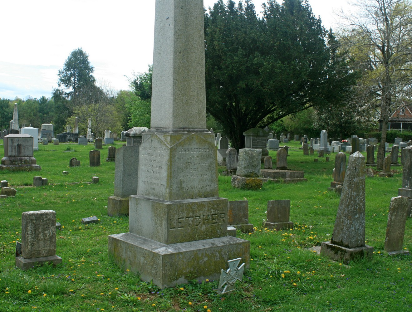 The tomb of John Letcher at Stonewall Jackson Memorial Cemetery (Lexington)